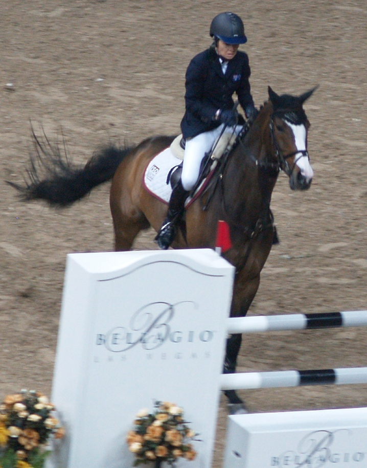 Edwina Alexander with Pialotta, FEI-World Cup Final 2007, Las Vegas, NV, USA